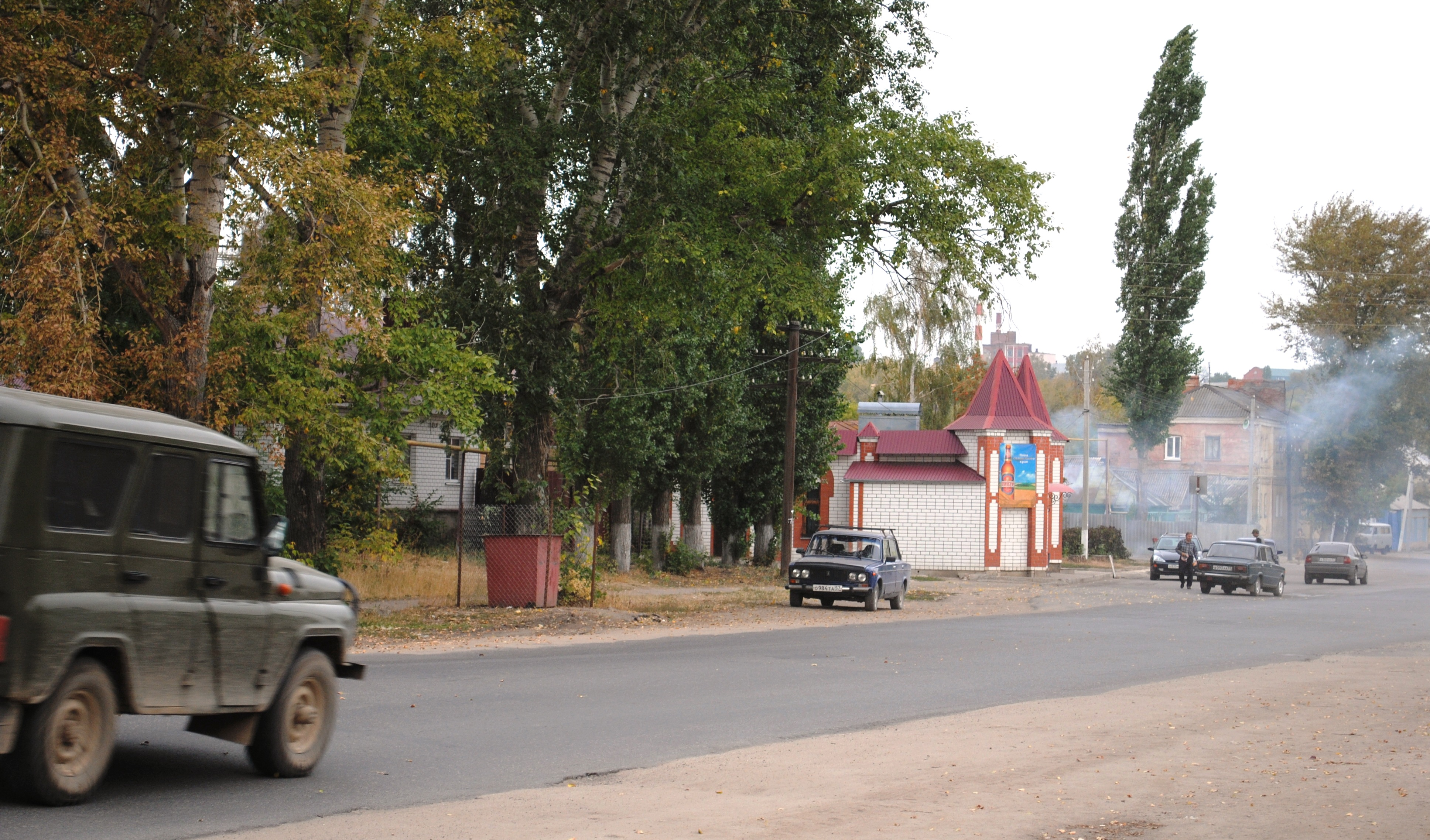 Belomestnoe